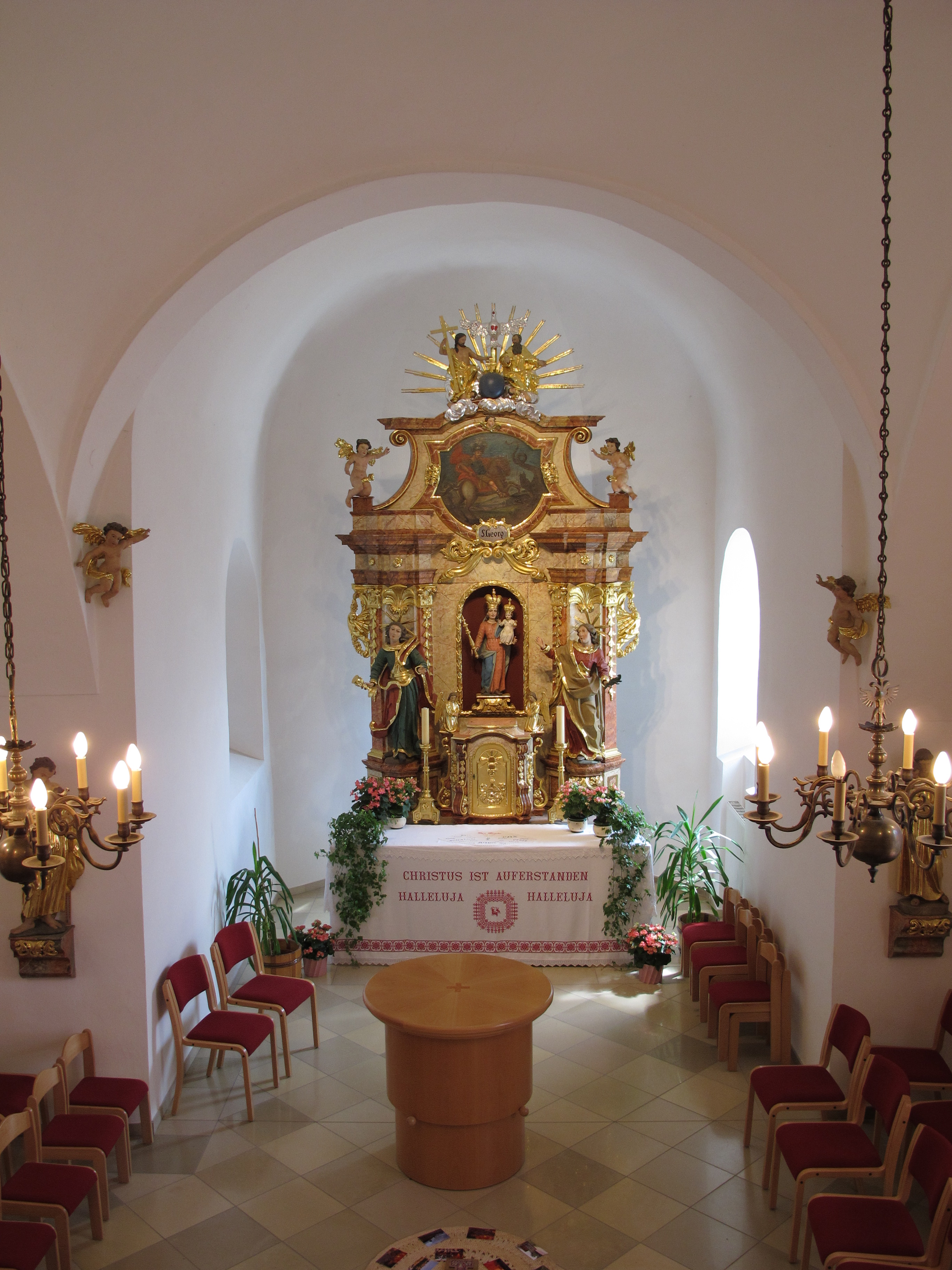 Pfarrkirche St. Georg (Bad Traunstein)